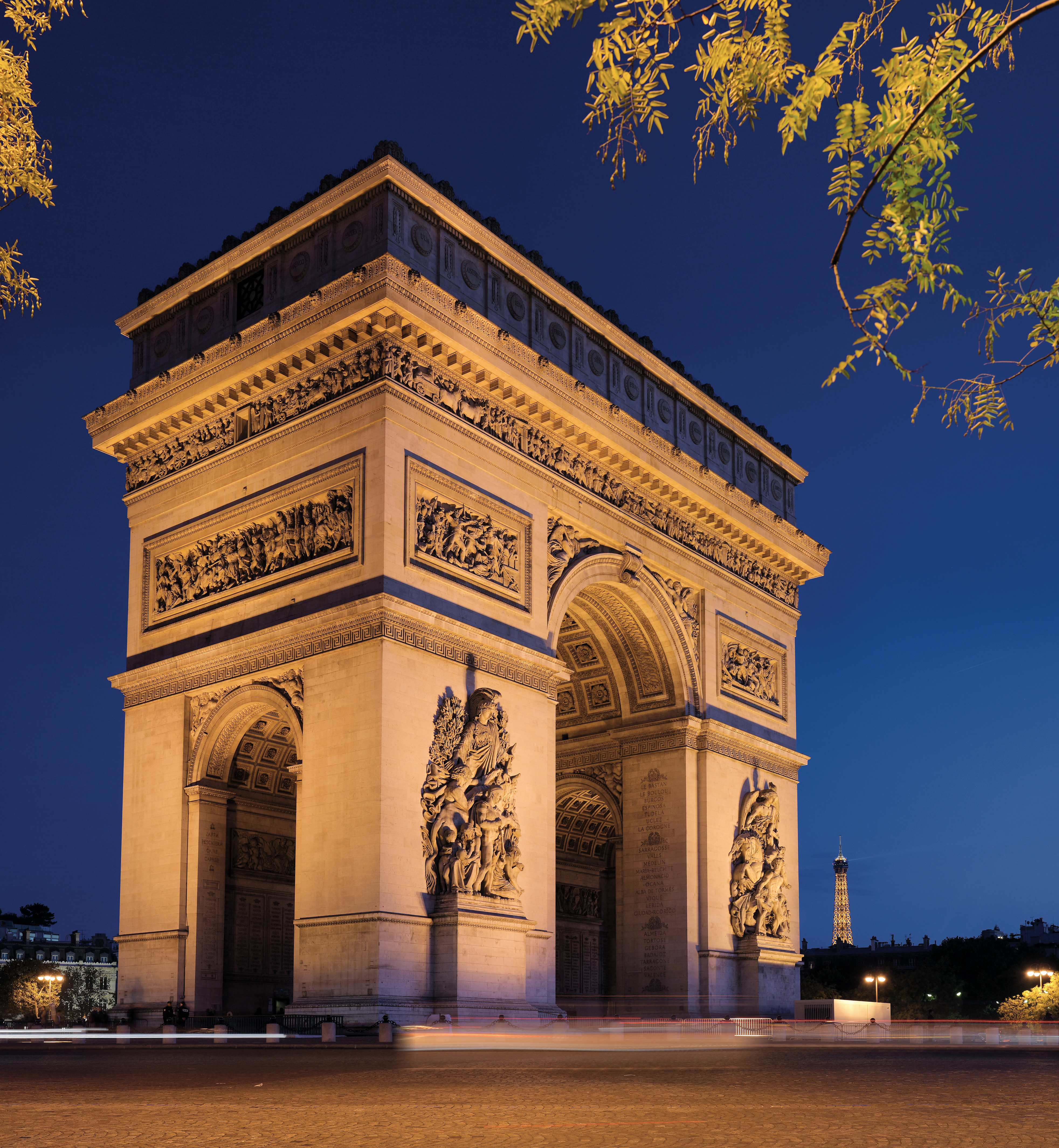 Arc de Triomphe (Arch of Triumph), at the center of the place Charles de Gaulle, Paris.